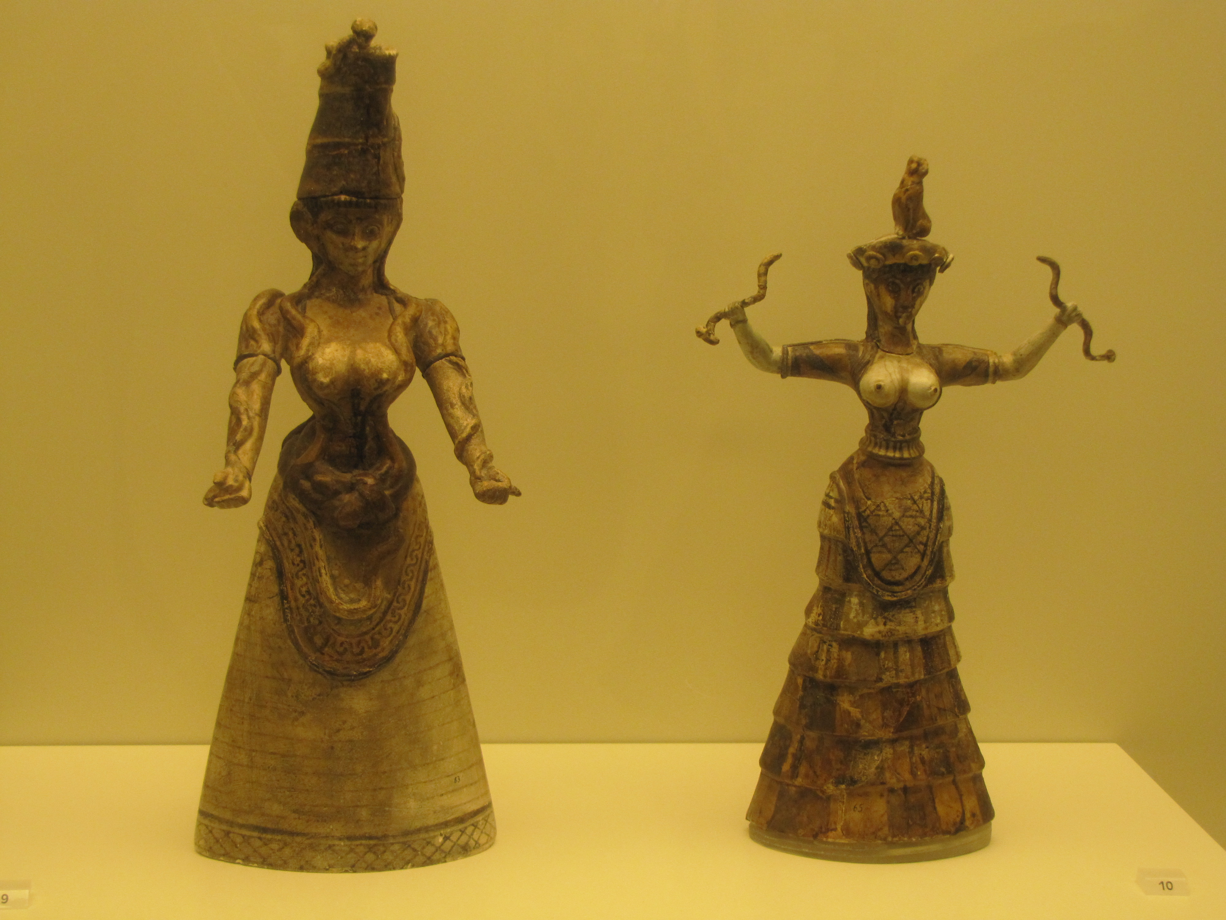 Archaeological Museum of Herakleion - Snake Goddess